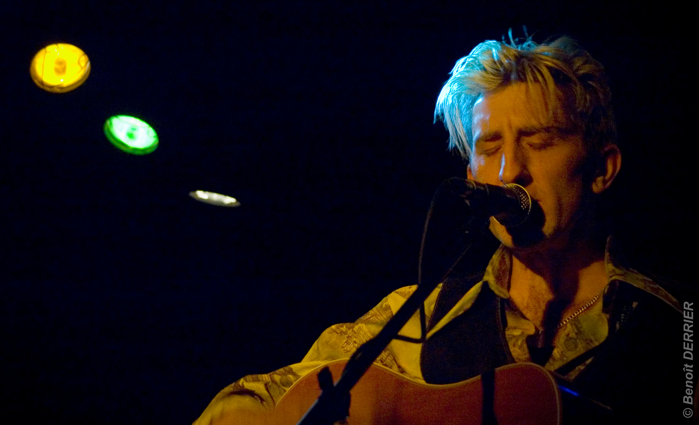 Merz performing at The Cellars, Portsmouth, England.